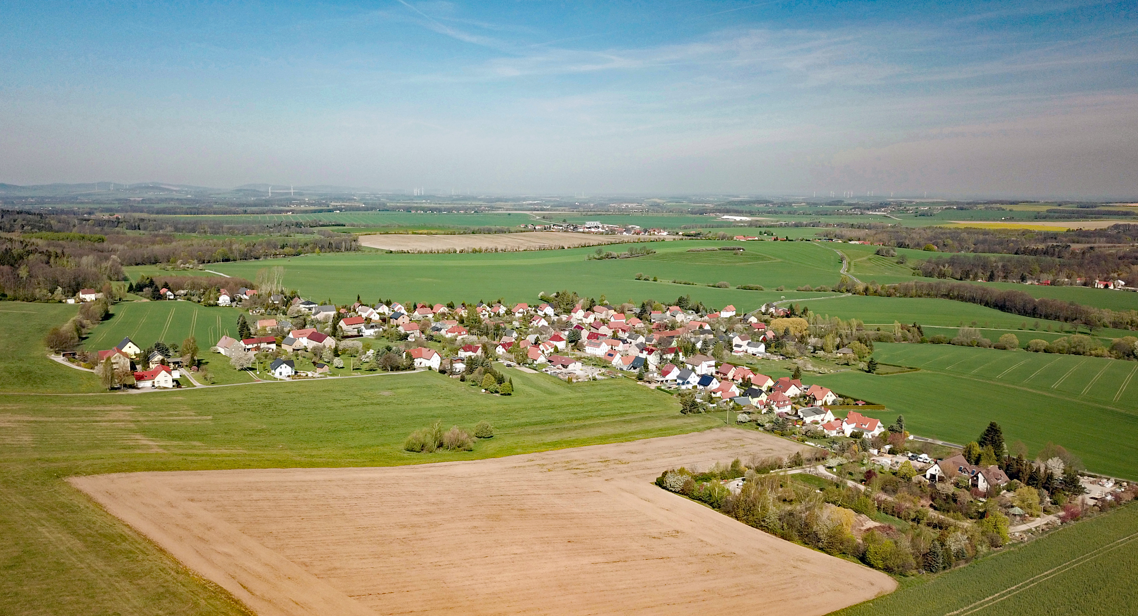 Schwarznaußlitz, Obergurig, Saxony, Germany Hornjoserbsce: Powětrowe wobrazy Čornych Noslic